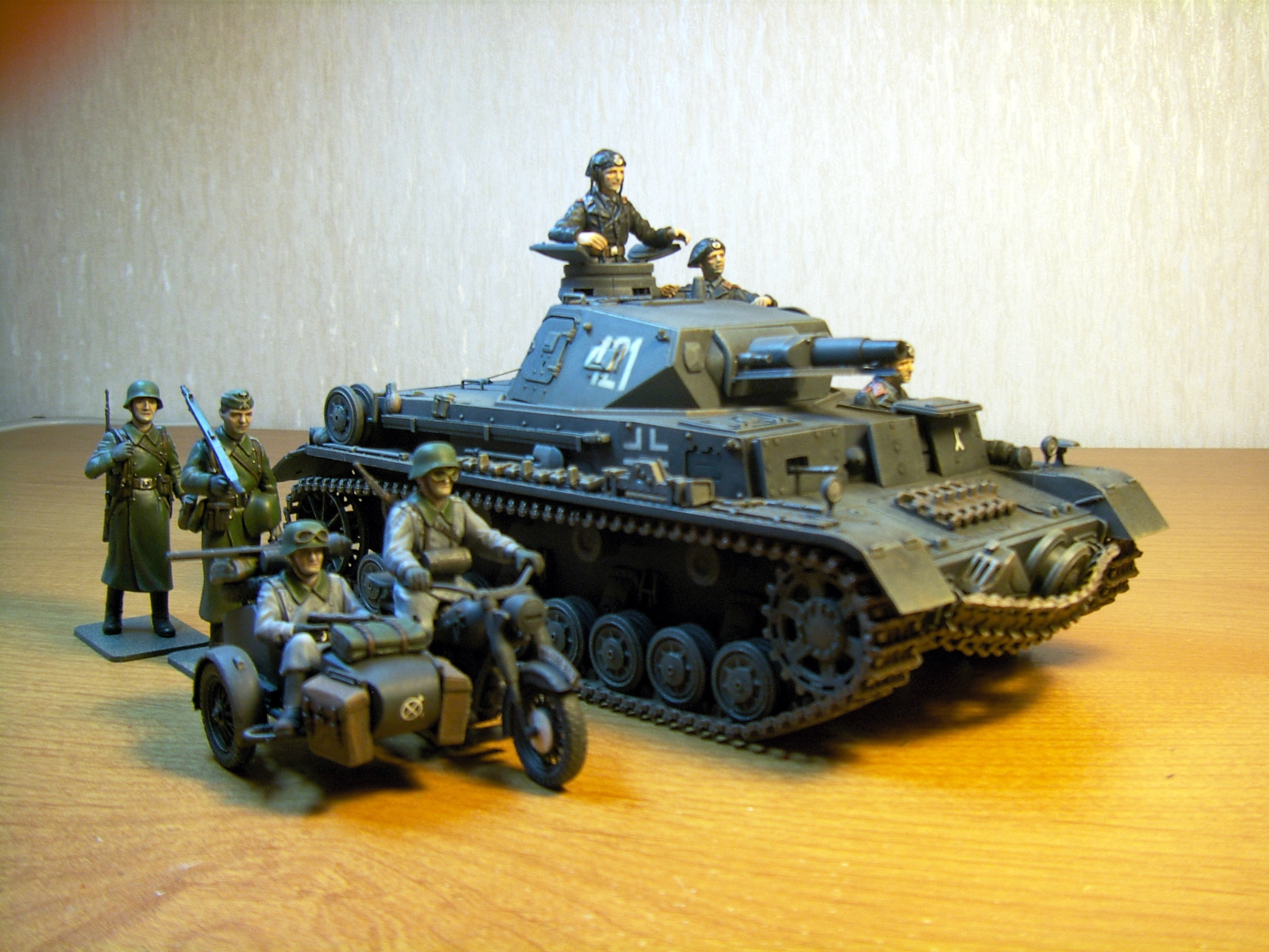 More pictures of My Toy Museum at Flickr. Most of those toys do still have copyrights so i can't publish them here! 70s Memories